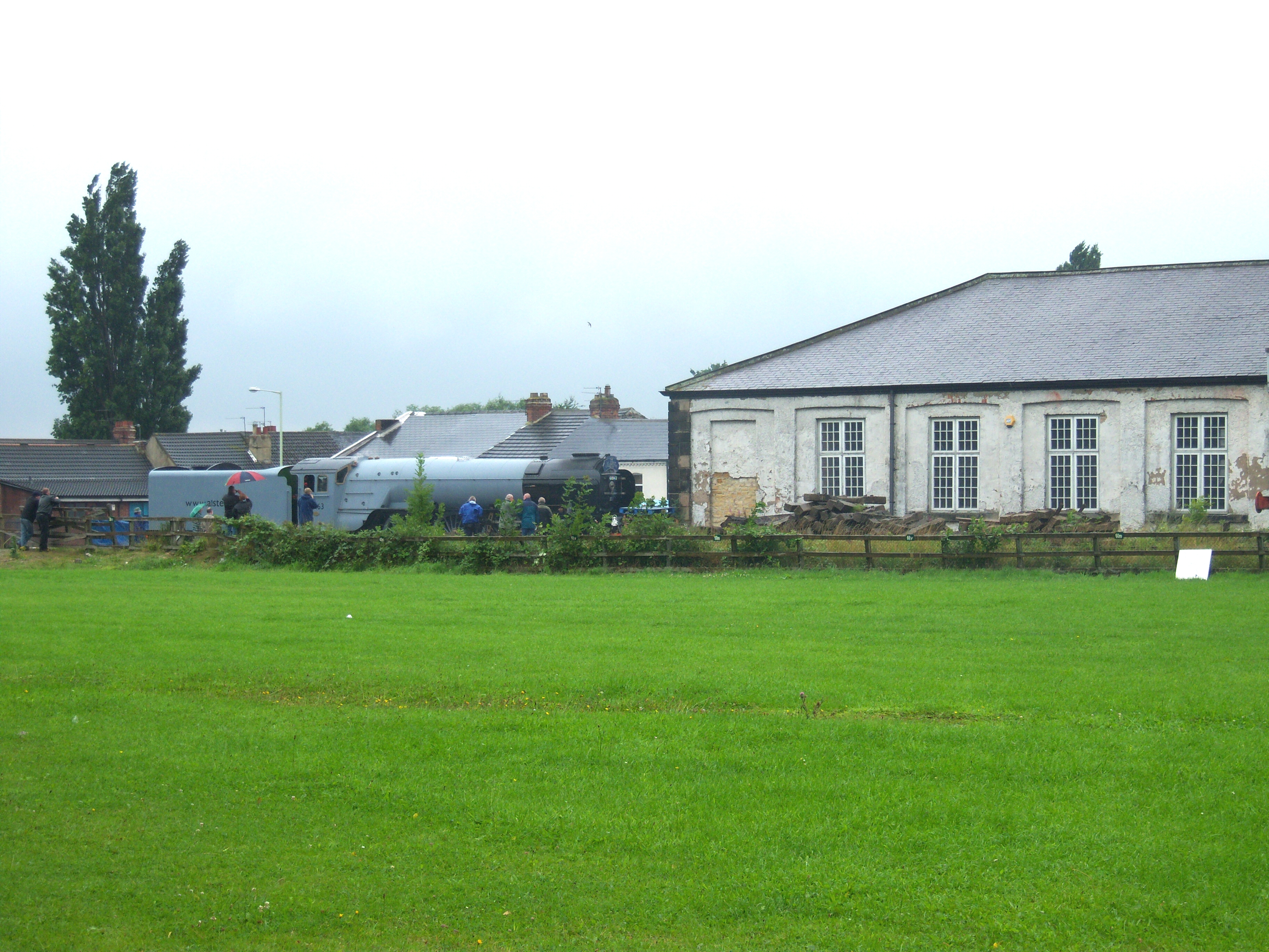 60163 Tornado outside Hopetown Carriage works